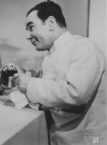 Enrique Garcia Satur- actor